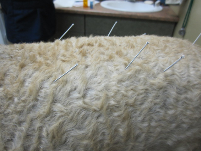 At Maestro's first acupuncture treatment for his canine arthritis and IVDD. Photo by R-M Arca.